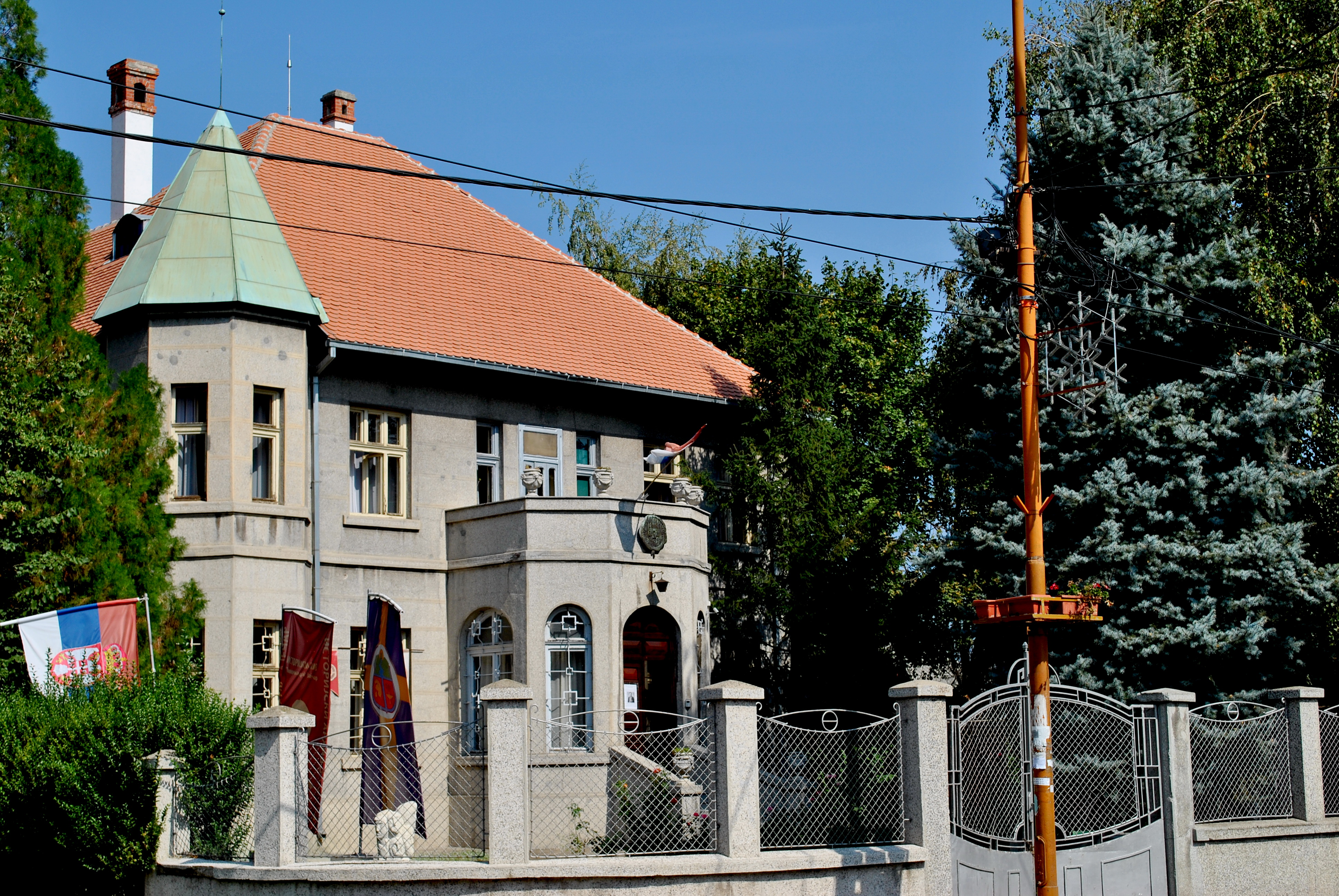 СК 995